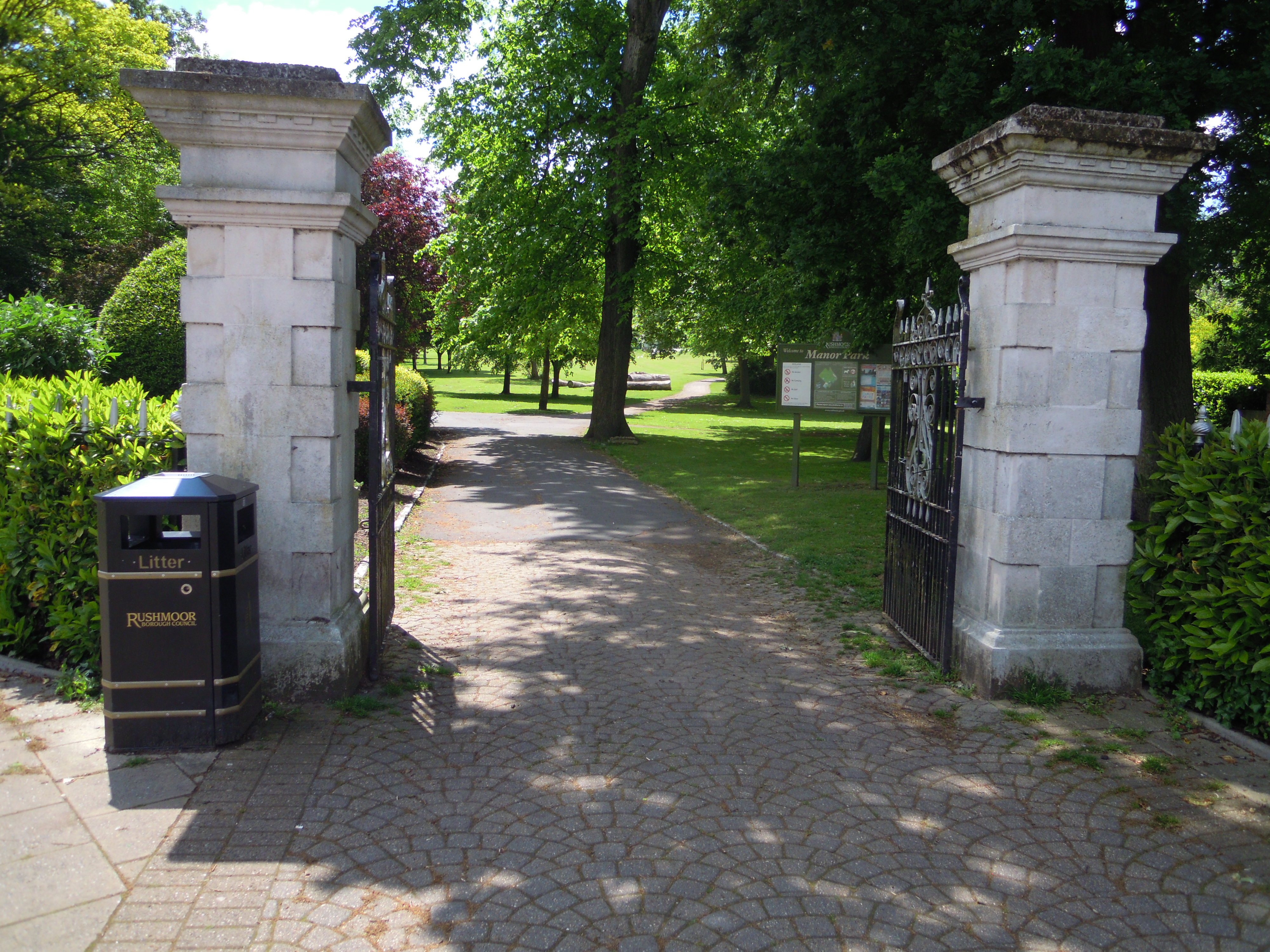 The High Street entrance to Manor Park in Aldershot in Hampshire